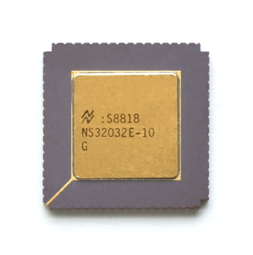 CPU National Semiconductor NS32032.